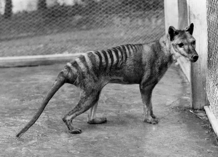 Image of a juvenile male thylacine at Hobart Zoo taken by B Sheppard in 1928. The animal died the day after it was photographed.